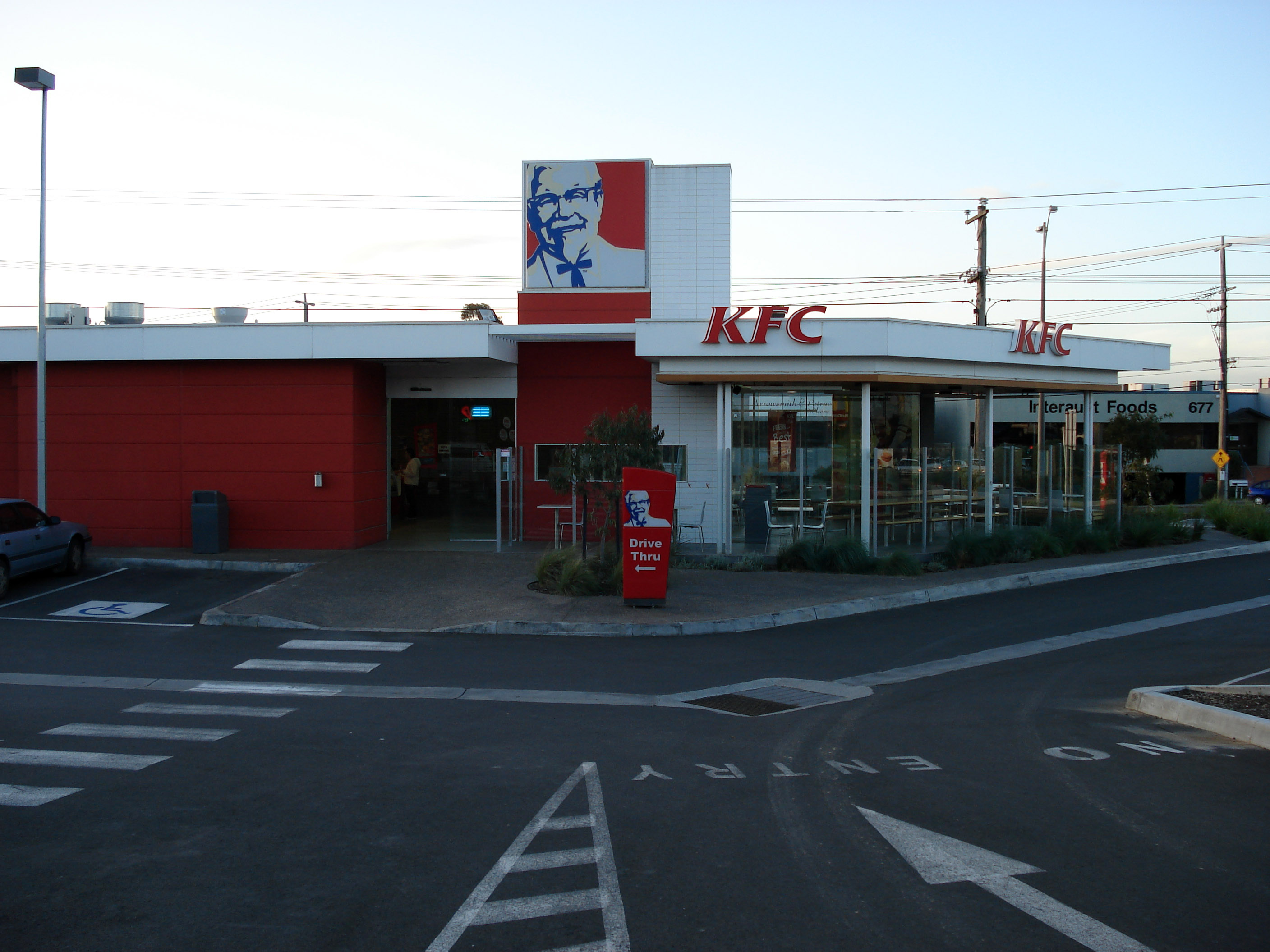 A KFC restaurant in Melbourne (Australia)